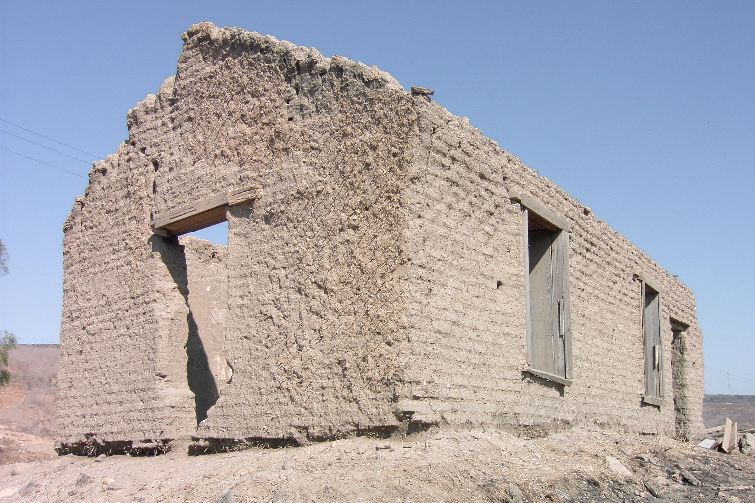 The ancient fort in El Descanso Mission